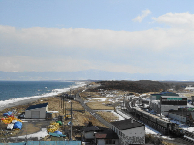 Hama-Koshimizu Station